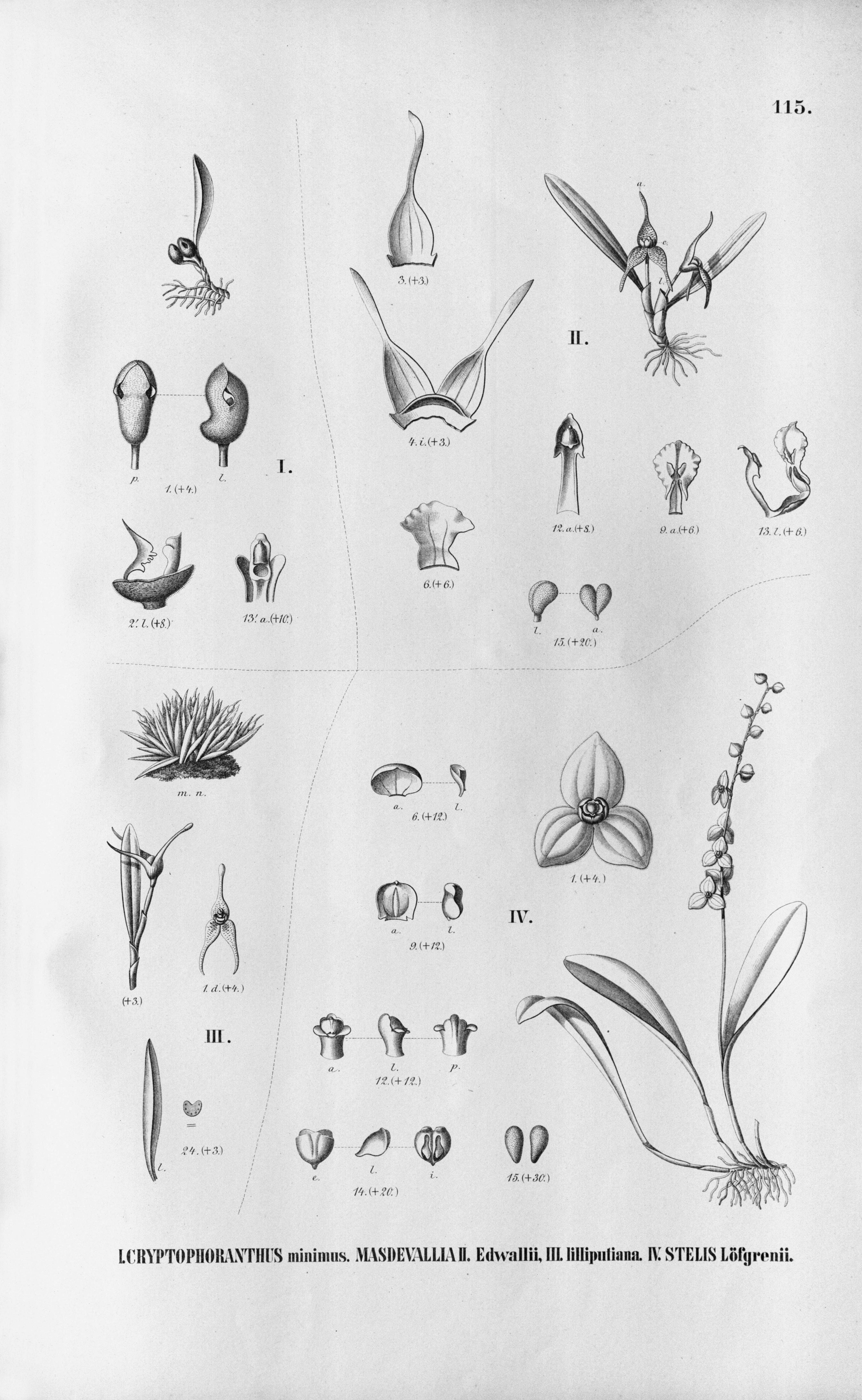 Illustration of : I. Acianthera minima (as syn. Cryptophoranthus minimus) II. Dryadella edwallii (as syn. Masdevallia edwallii) III. Dryadella lilliputiana (as syn. Masdevallia lilliputiana) IV. Stelis loefgrenii (spelled Löfgrenii)